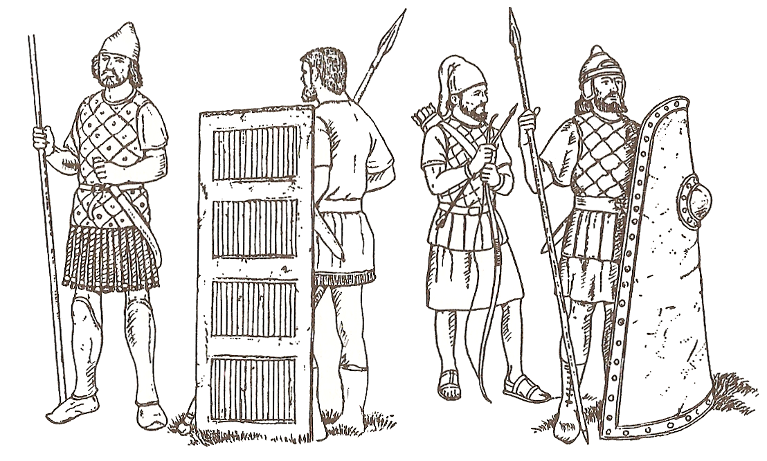 Soliers of Xerxes army. Left to right: 2 chaldean infantryman; persians: Babylonian archer, Assyrian infantryman.